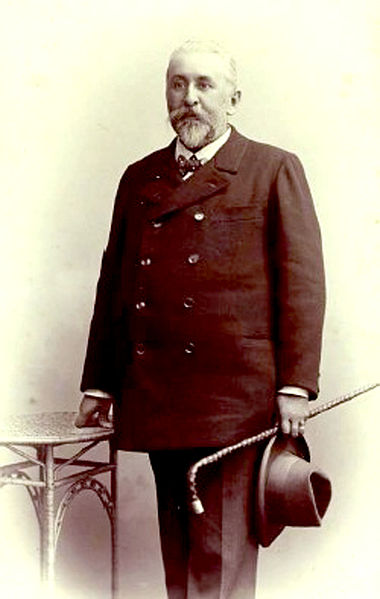 George Armitstead, Mayor of Riga